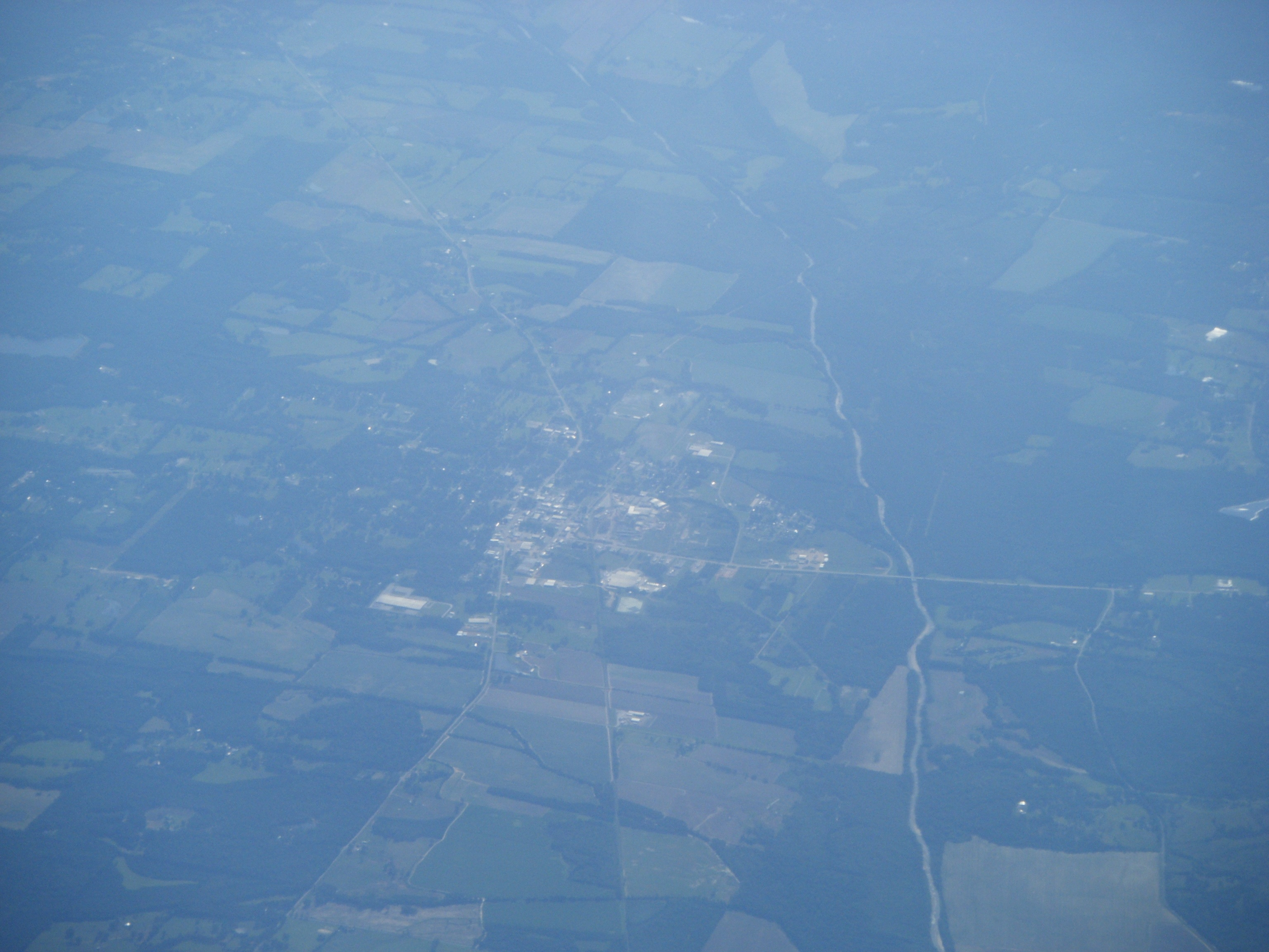 A view of Bruce, Mississippi taken from an airplane